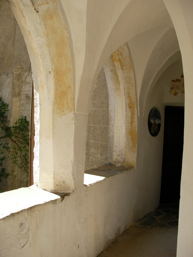 Detail of gothic arches in inner courtyard stairwell, Karneid Castle.